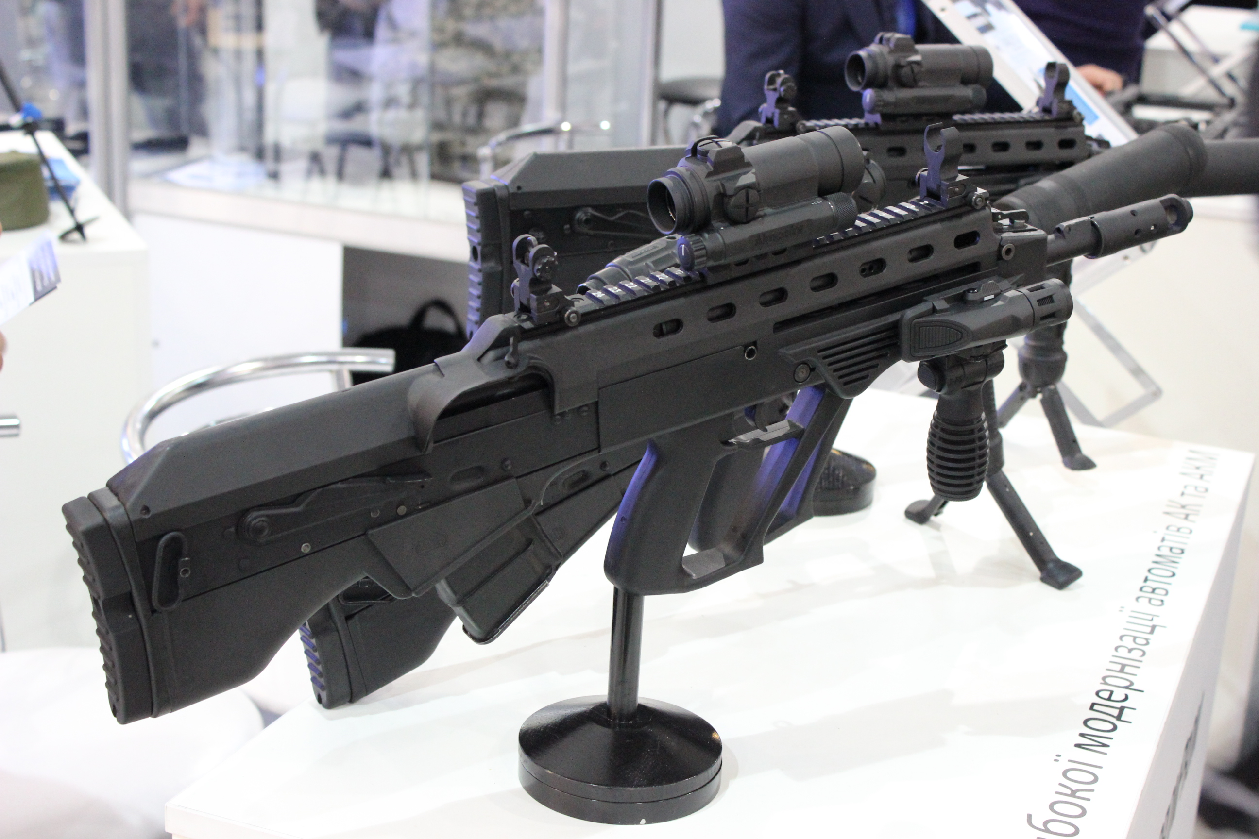 Malyuk assault rifles at the exhibition.